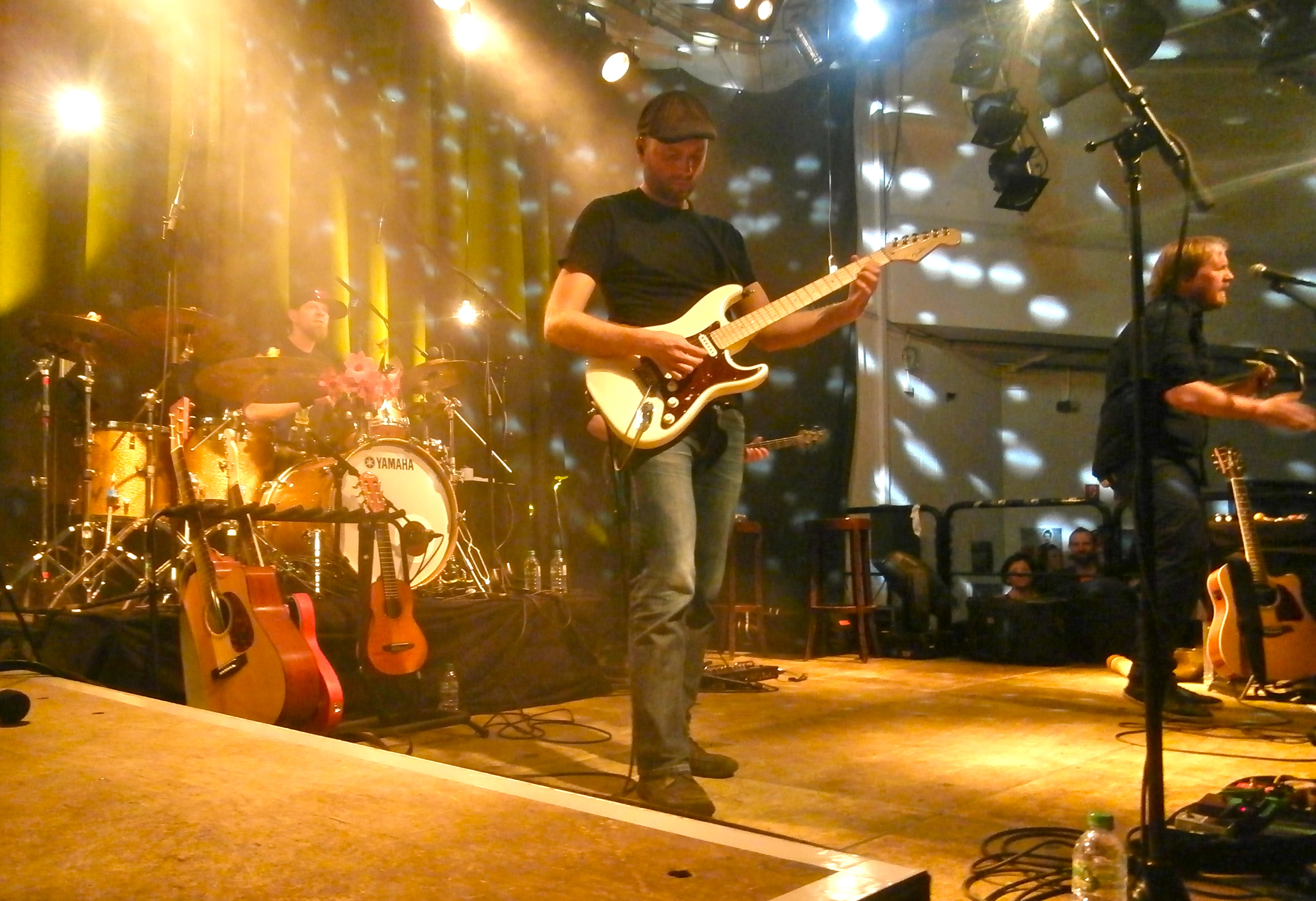 Marc-Uwe Kling at his concert in Düsseldorf, Germany.